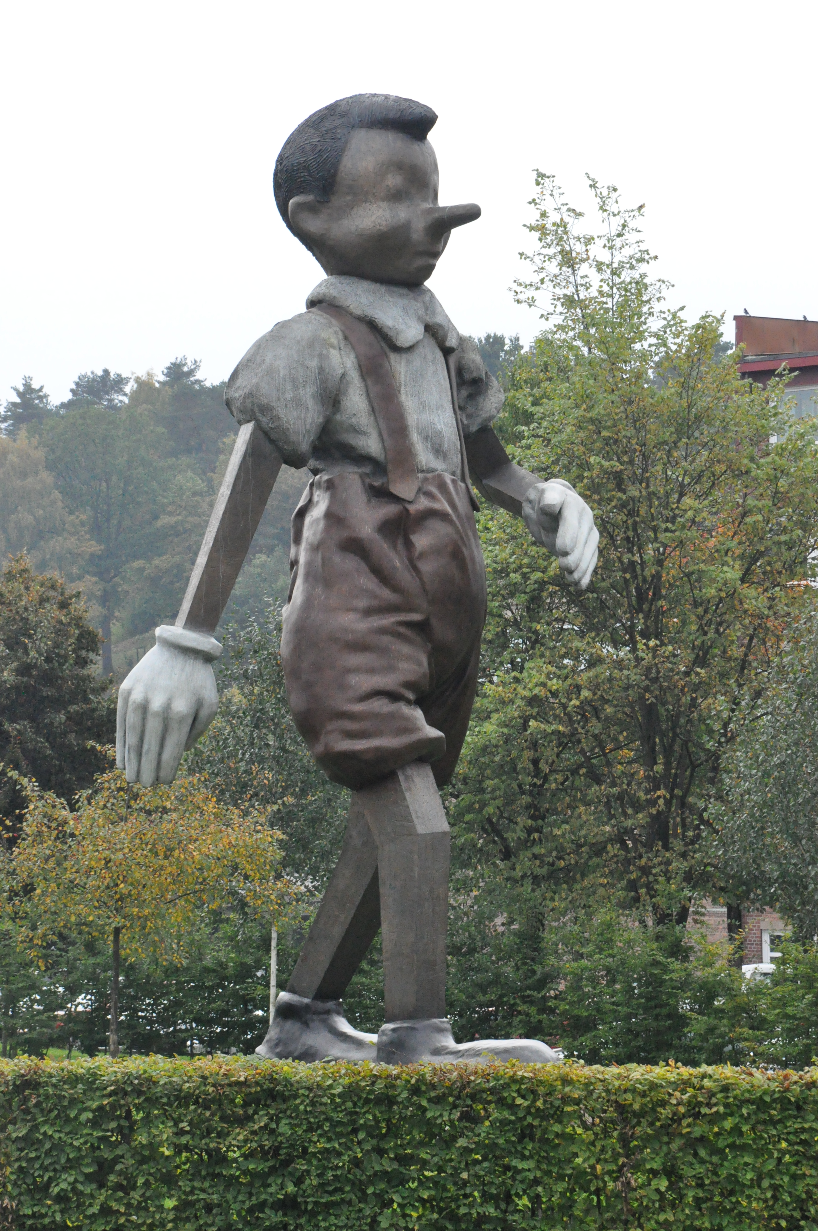 Jim Dine's Walking to Borås, Borås